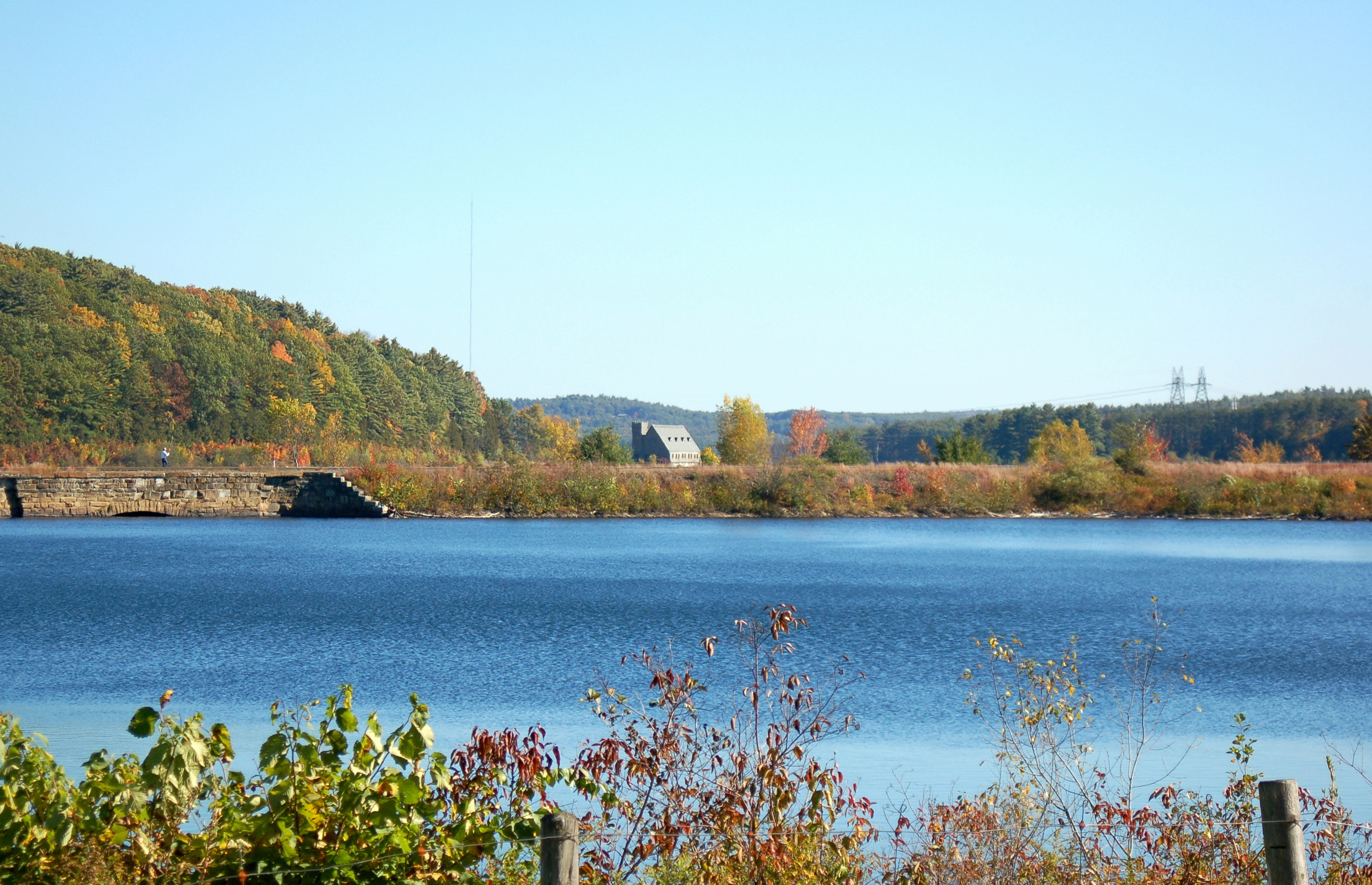 Confluence of Stillwater, Quinapoxet, and Nashua Rivers at the Wachusett Reservoir. Photo by Author, Richard B. Johnson